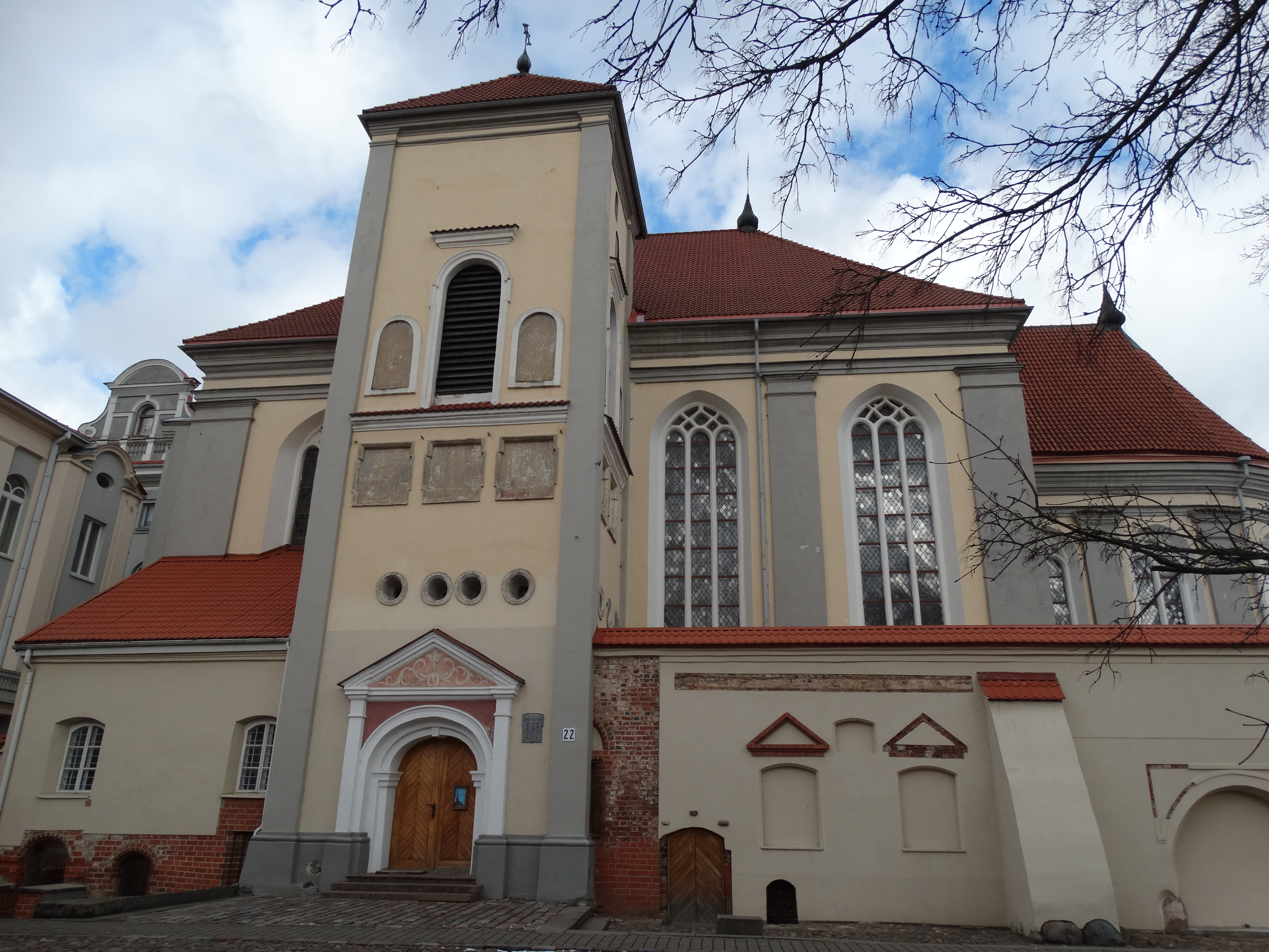 Catholic Church of Saint Trinity (part of Priest Seminary), Kaunas, Lithuania